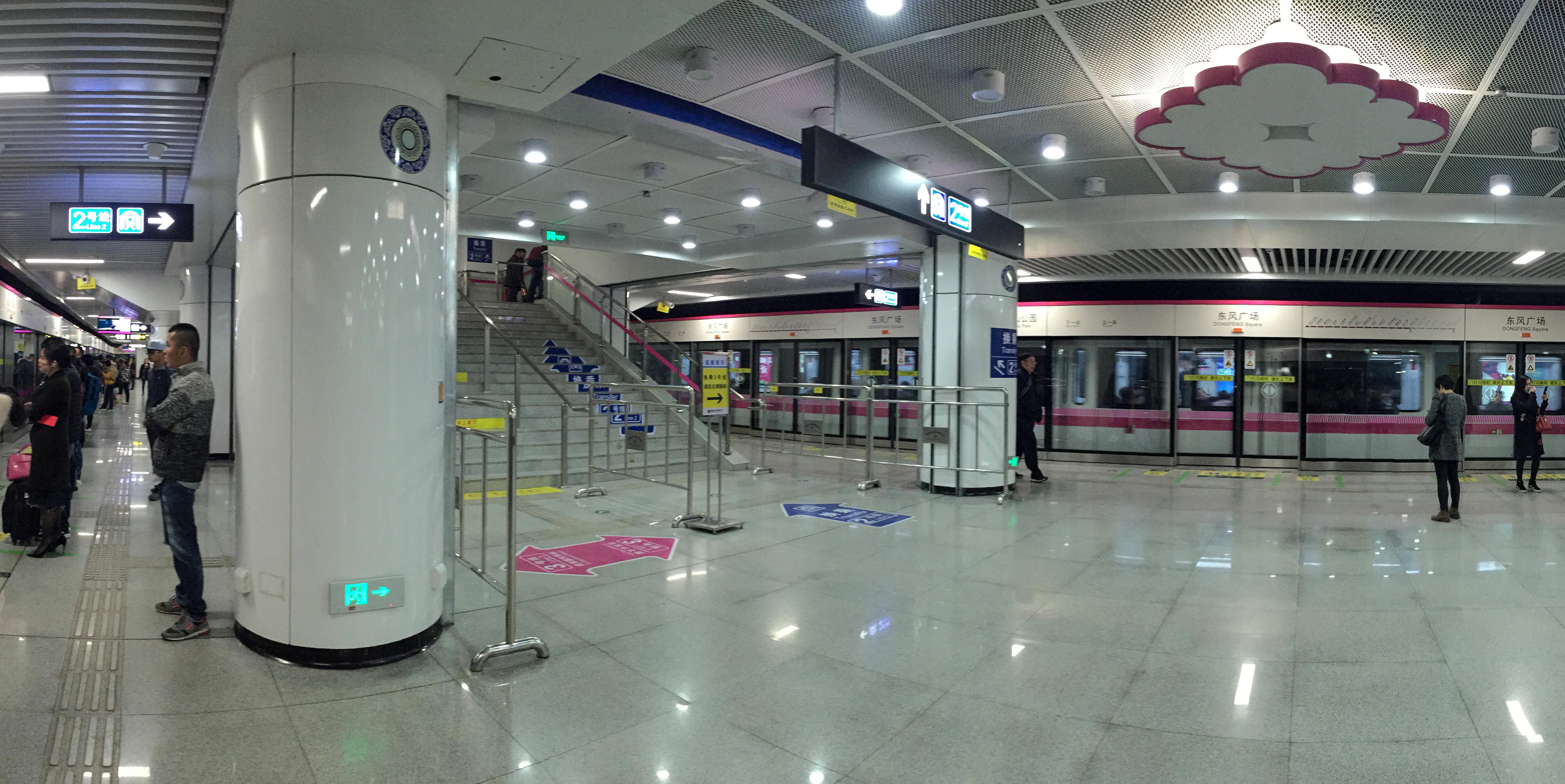 Actually a failed panorama.